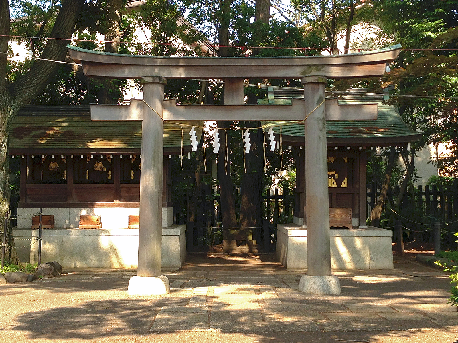 keidaisha (inside small shrines) of Rokugo-jinja